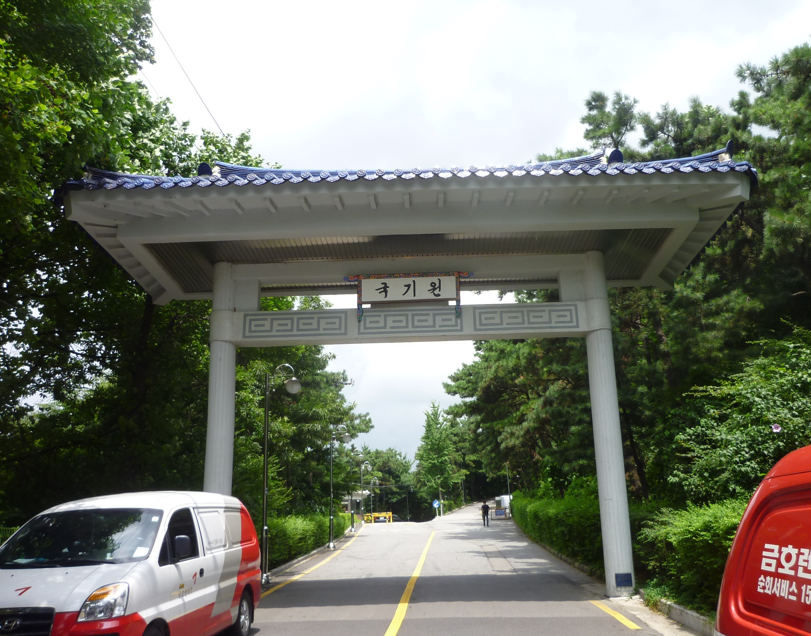 The gates to Kukkiwon (국기원) on a sunny summer day.